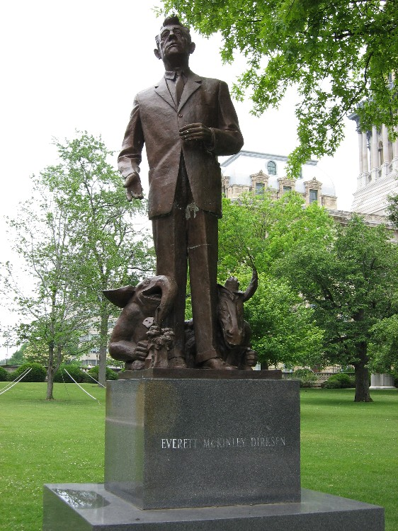 Statue of Everett Dirksen at Illinois State Capitol